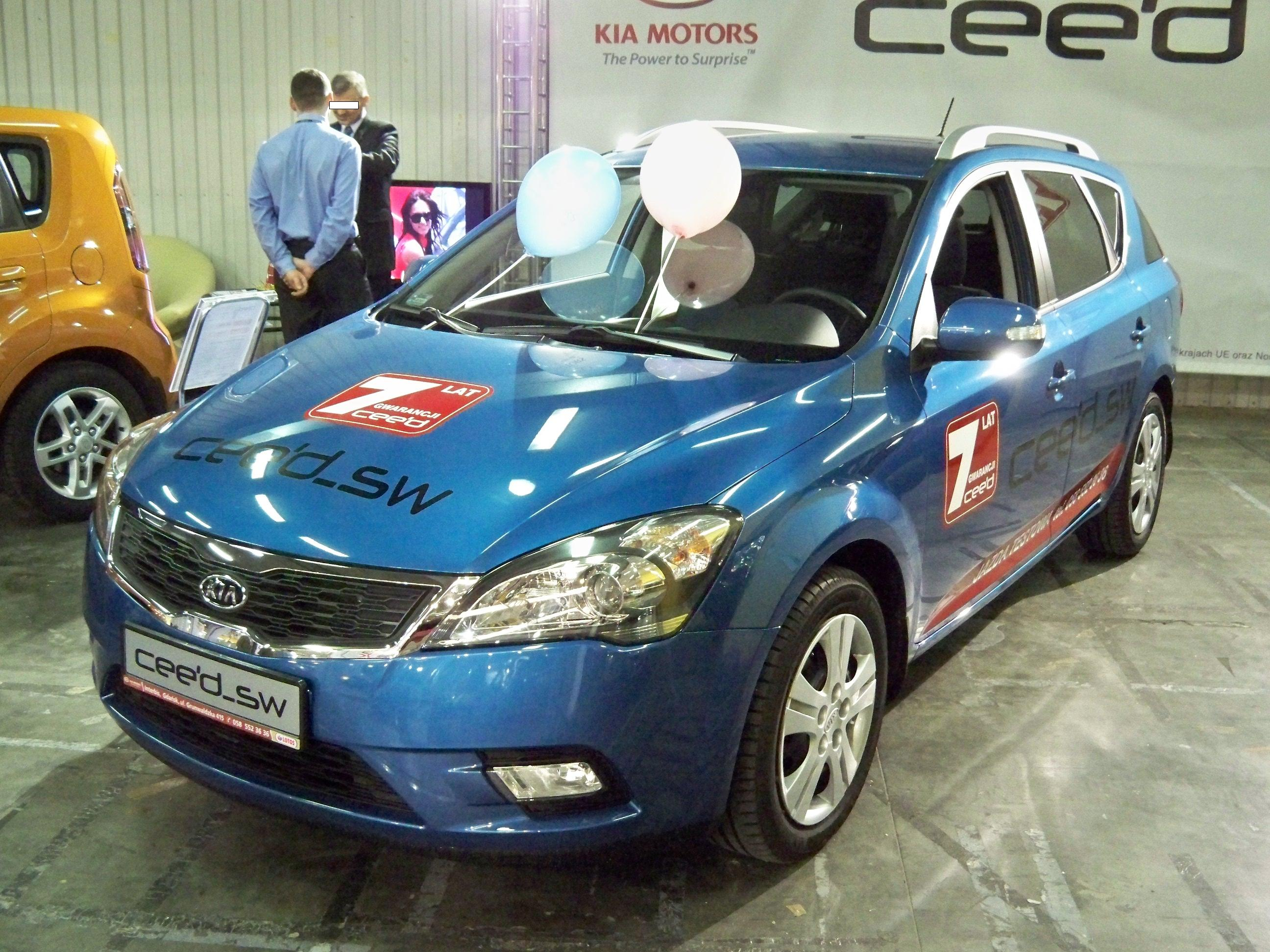 Kia cee'd Station Wagon after Facelift front - GMS 2009 in Gdansk.